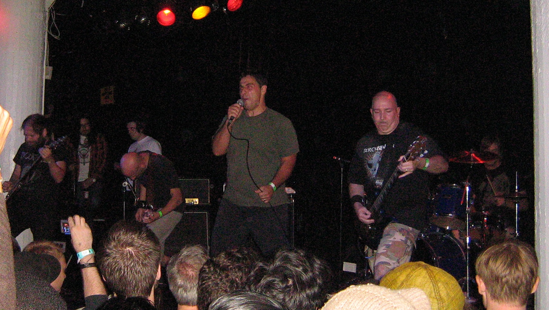 Rorschach at Santos Party Hall NYC 9/25/2009